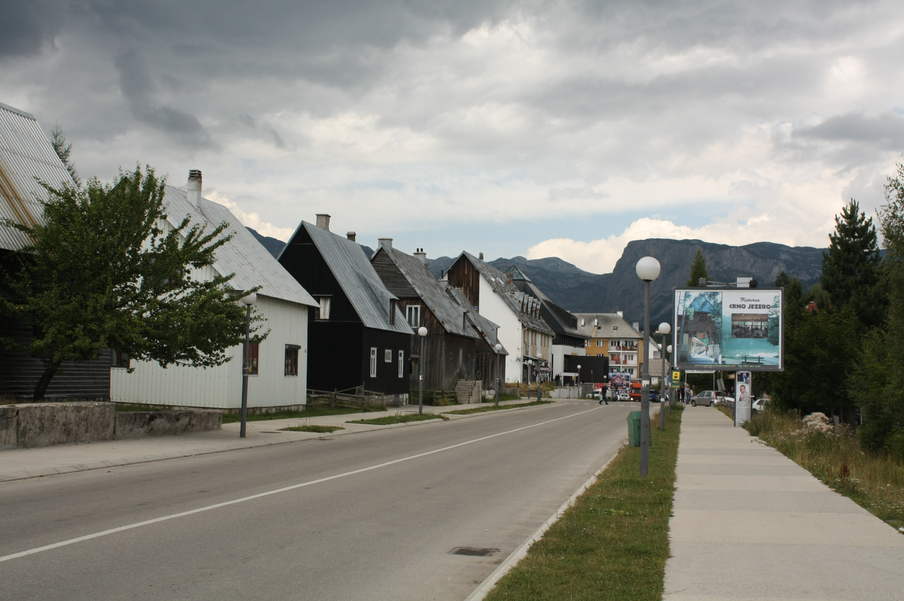 Žabljak, Montenegro - town centre